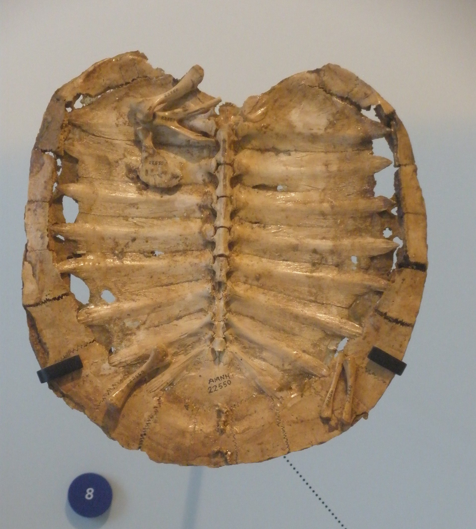 Fossil of Araripemys barretoi, an extinct turtle